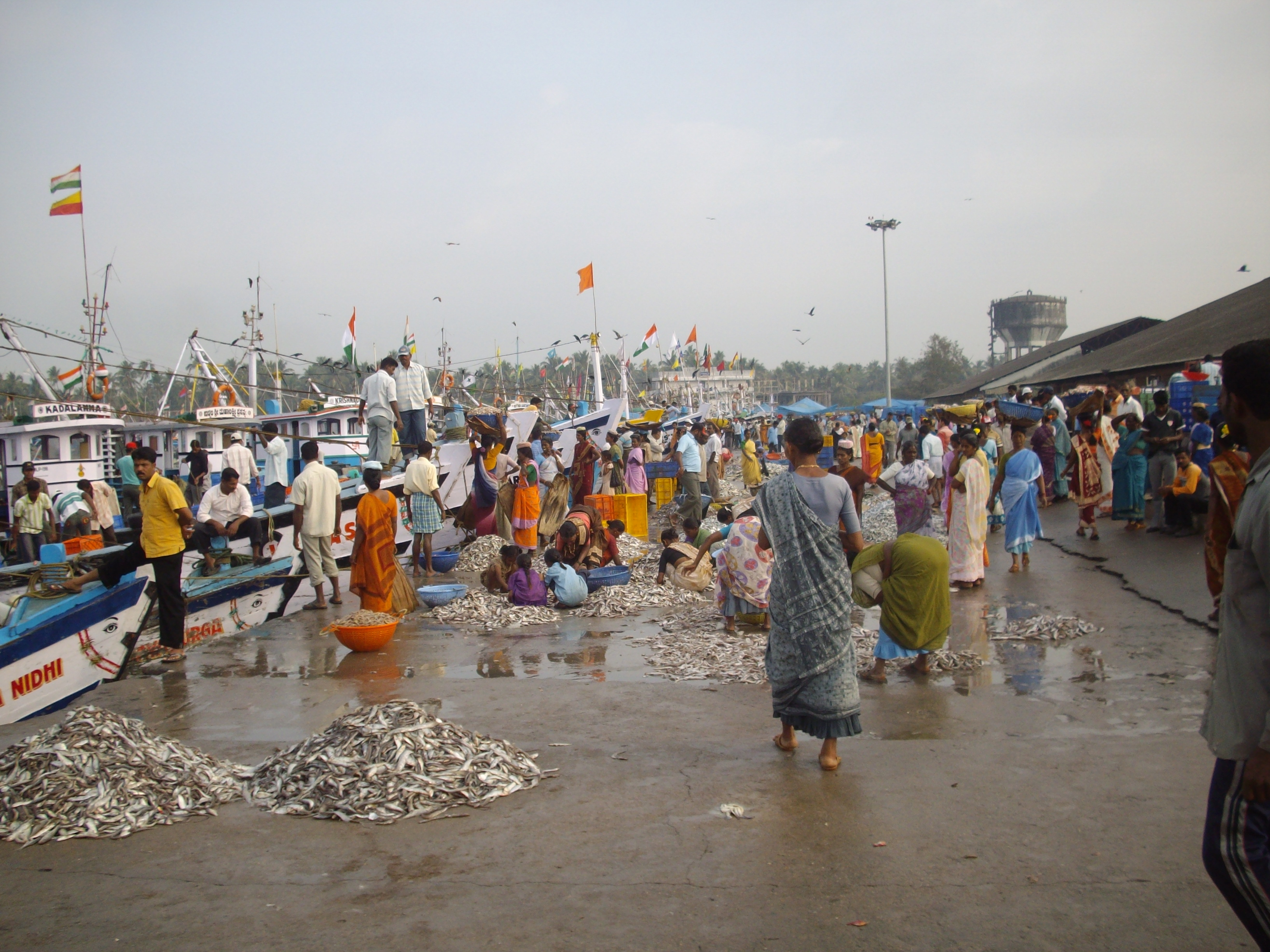 The Fishing Industry at "Malpe Port(Udipi District,Karnataka)